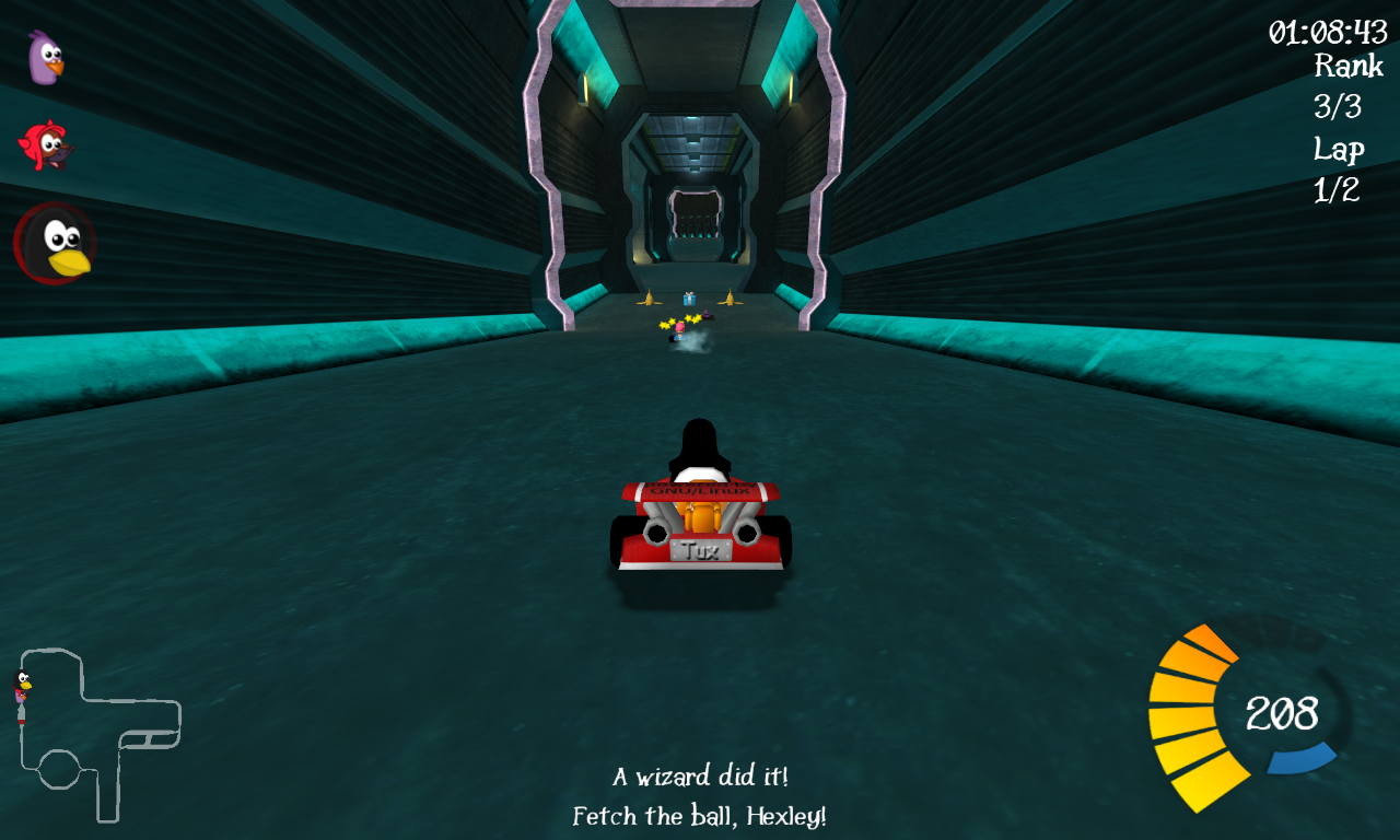 A screenshot of the stk enterprise track from the SuperTuxKart game